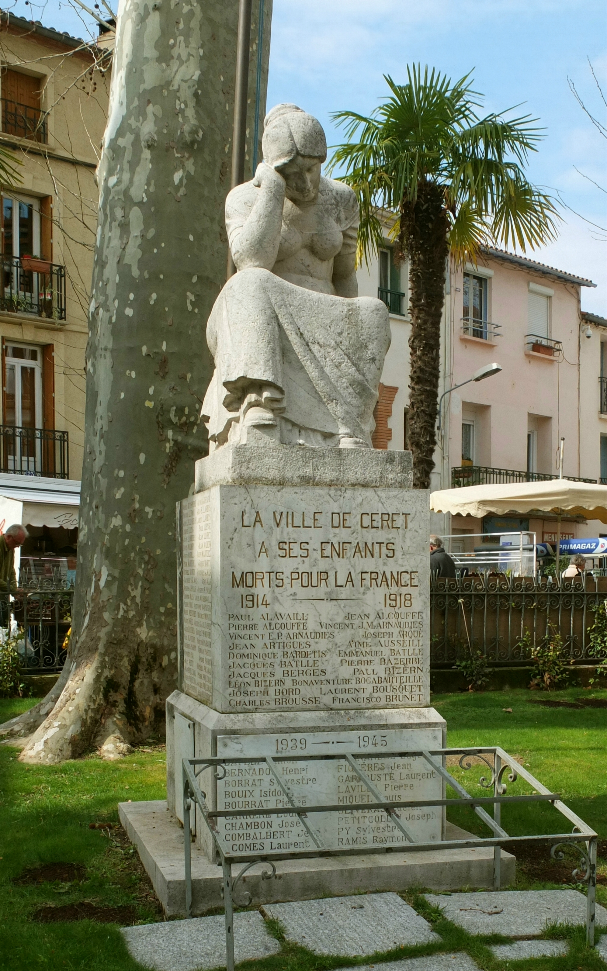 War memorial by Aristide Maillol, Céret (France), Place de la Liberté Aristide Maillol (1861–1944) Alternative names Aristide Joseph Bonaventure MaillolDescriptionFrench sculptor, painter, draughtsman and printmakerDate of birth/death 8 December 1861 27 September 1944 Location of birth/death Banyuls-sur-Mer Banyuls-sur-MerWork location Paris (1881-1900), Banyuls-sur-Mer (1893-1944)Authority control : Q153920 VIAF: 14228 ISNI: 0000 0001 0854 4692 ULAN: 500001596 LCCN: n80015568 NLA: 35202089 WorldCat creator QS:P170,Q153920